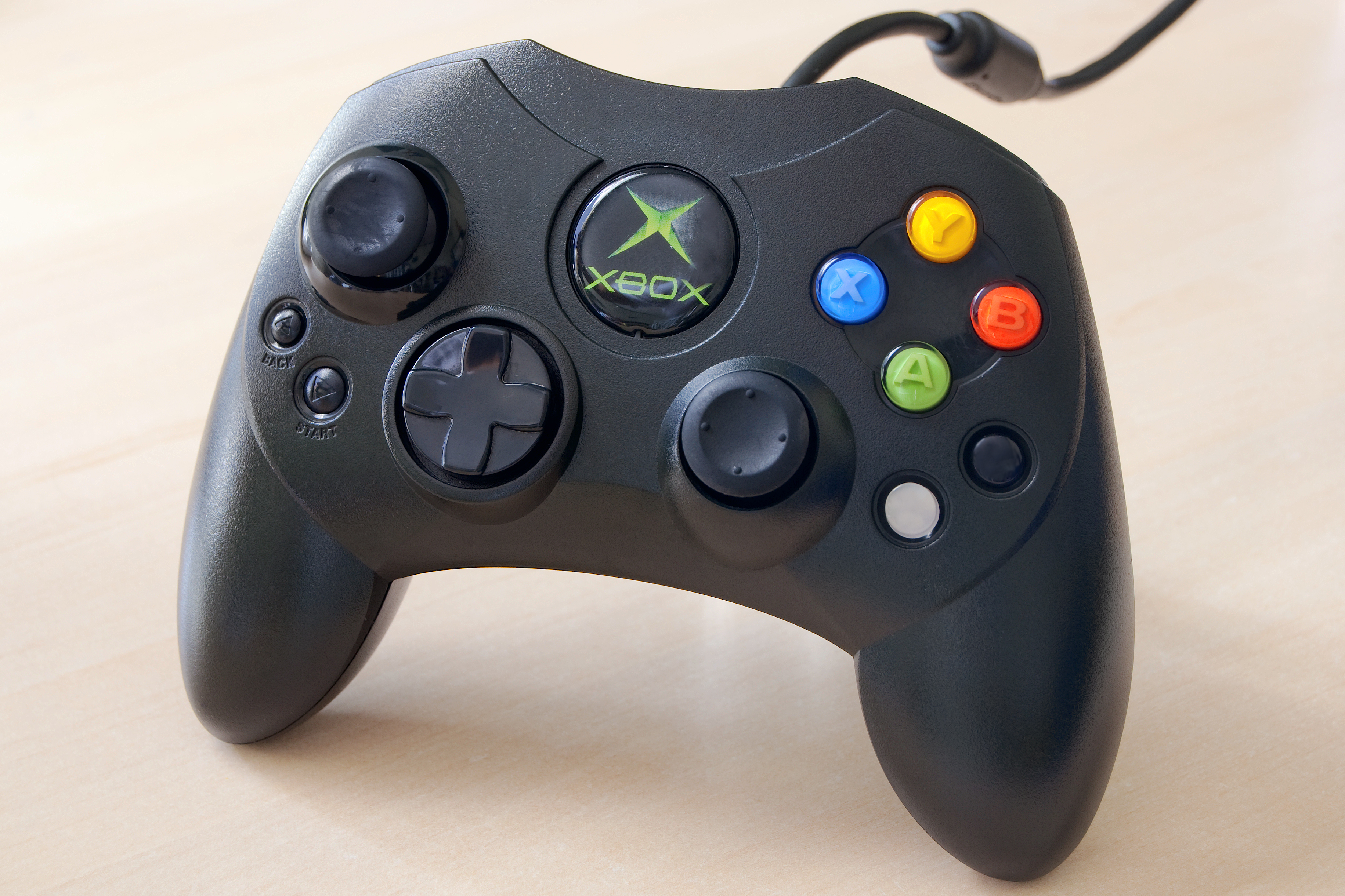 Image of an XBOX Controller S.